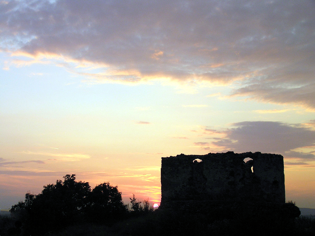 The ruins of a castle in Vynohradiv